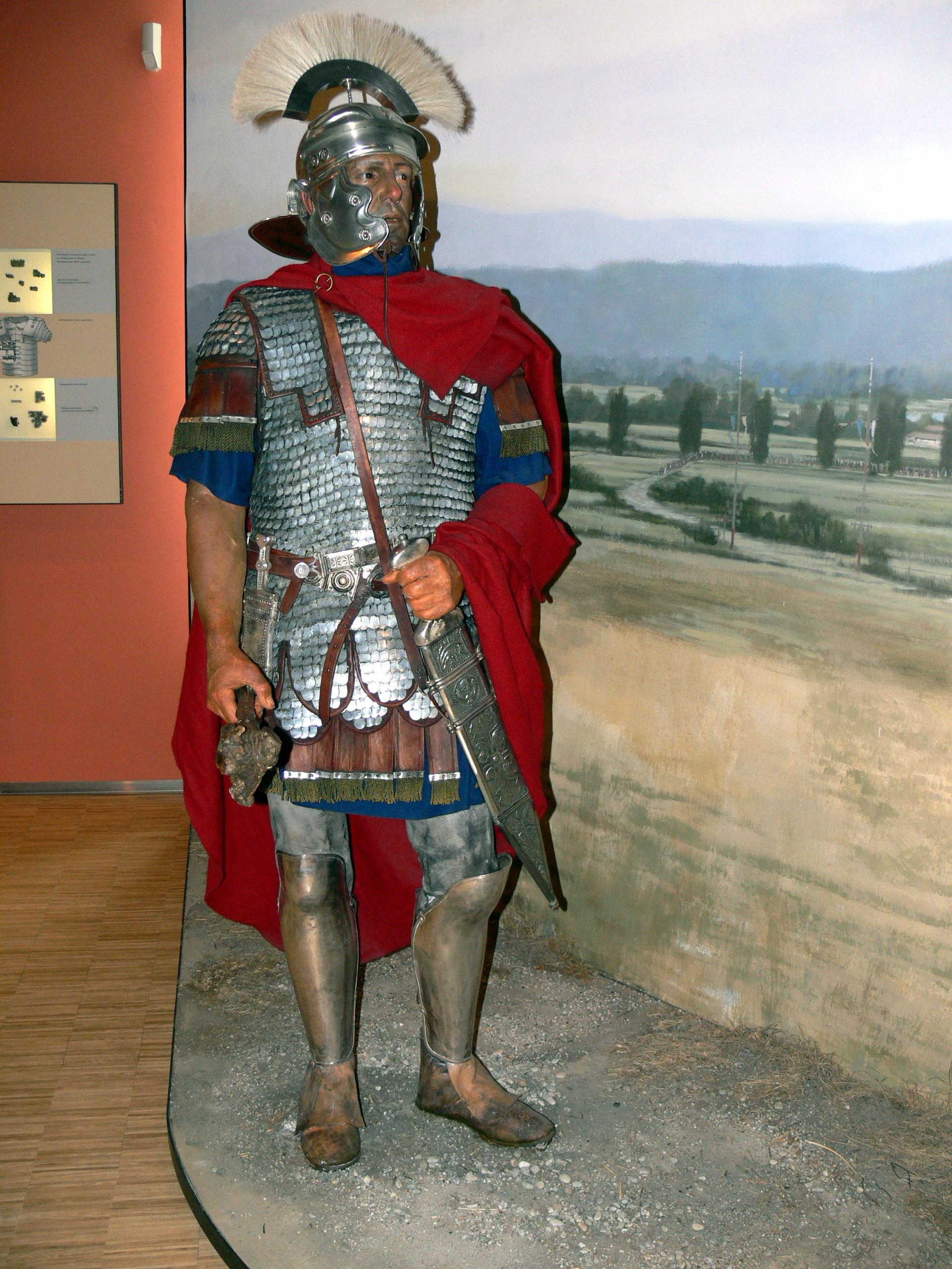 Museum Quintana - Roman department. Reconstruction of a Roman centurio.